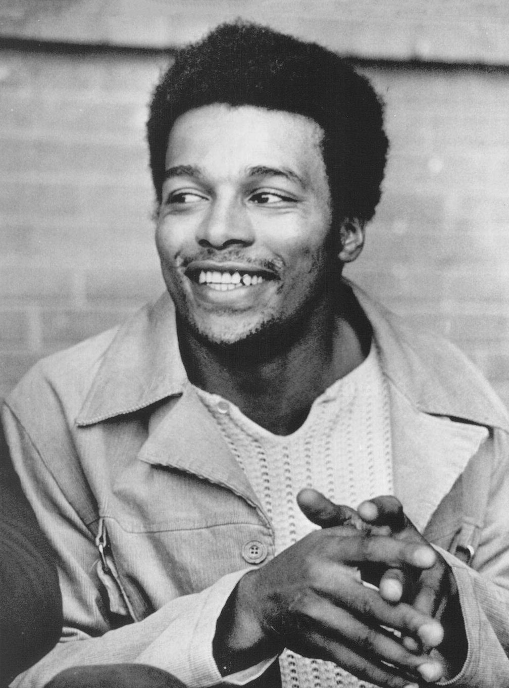 1972 Press Photo Dallas Cowboys football player Duane Thomas talks with reporter